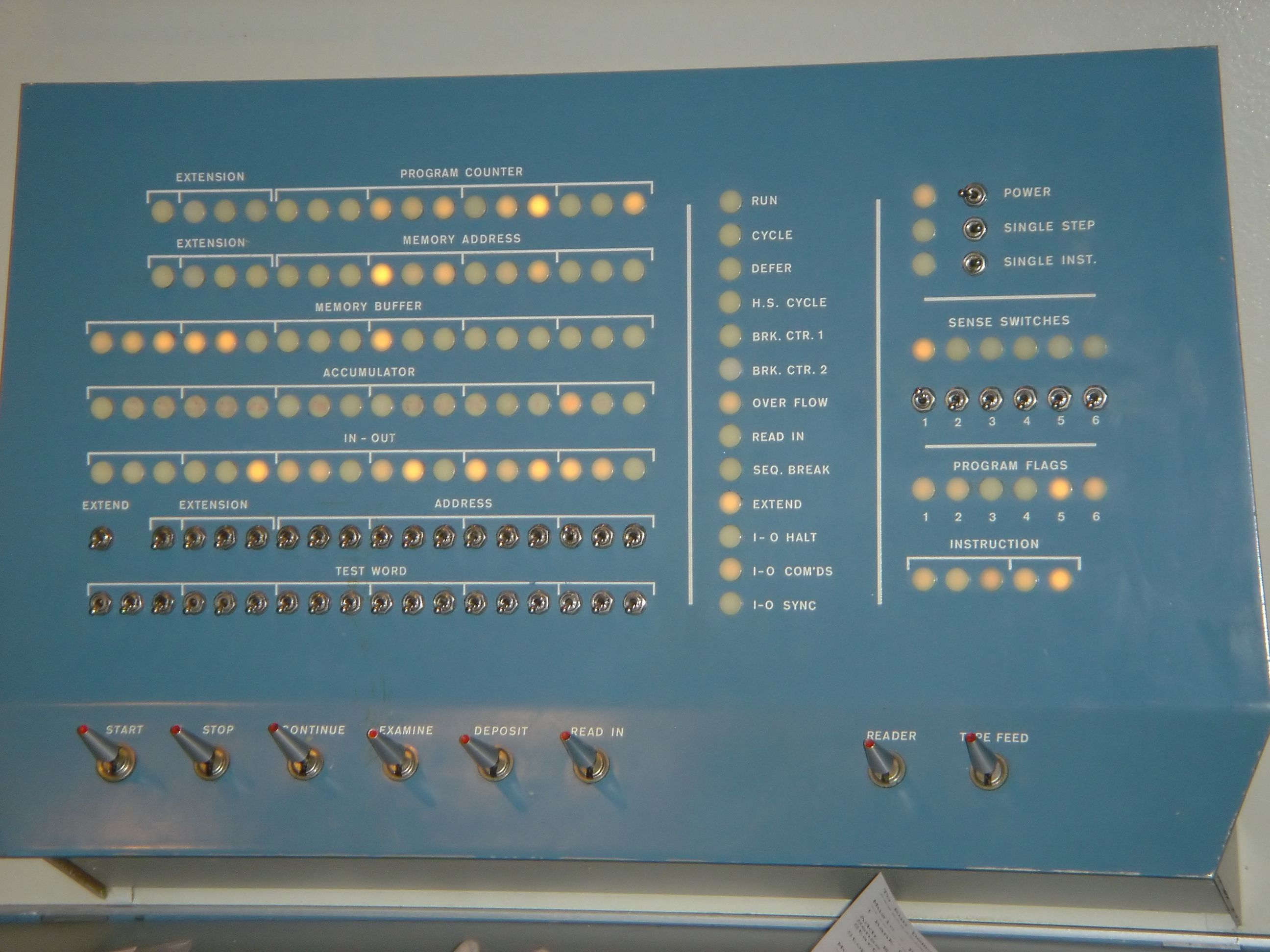 Control board of a PDP-1 computer